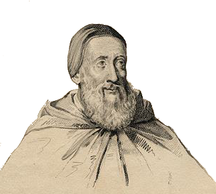 Mkhitar Sebastatsi (Mekhitar of Sebaste) steel engraved print, 1836.